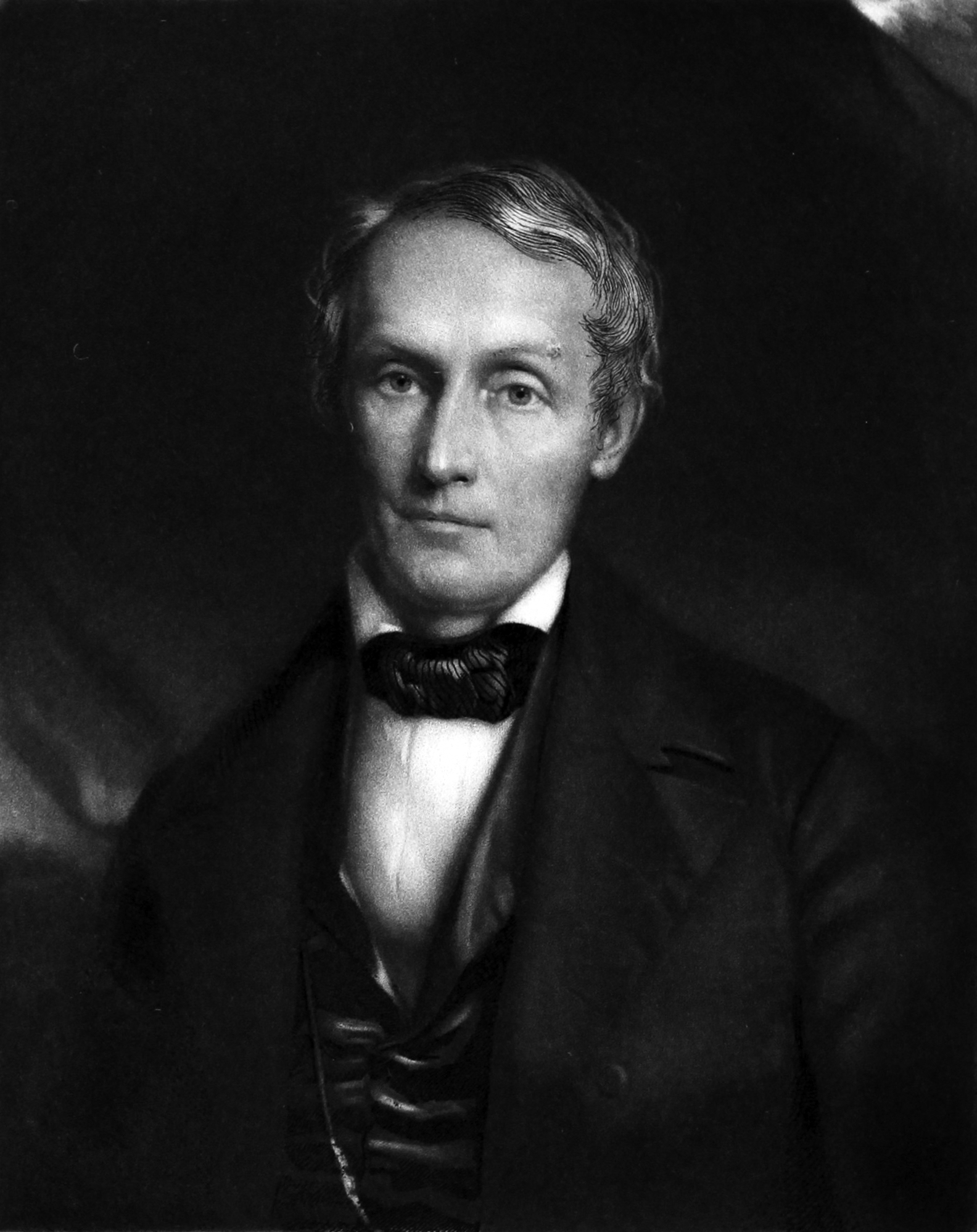 Samuel George Morton portrait